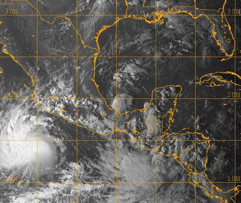 Tropical Storms Marco and Norbert and the low that would eventually become Tropical Storm Odile on October 6, 2008